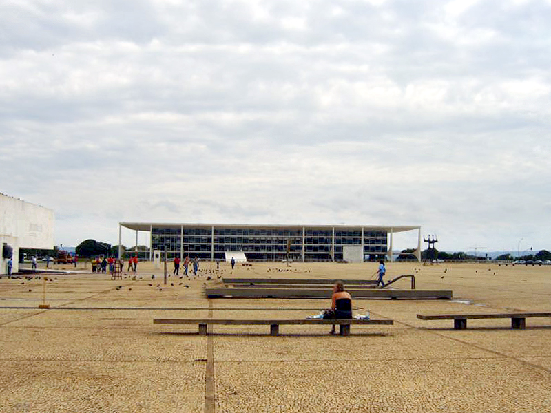 3 Poderes Square, 2006, Brasilia, Brazil, own work